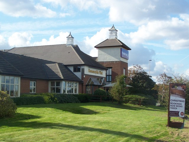 Honourable Pilot Public House On A2 towards Chatham. Part of the Brewer's Fayre range of Pubs, also has a Premier Inn Motel at the back of the Pub.